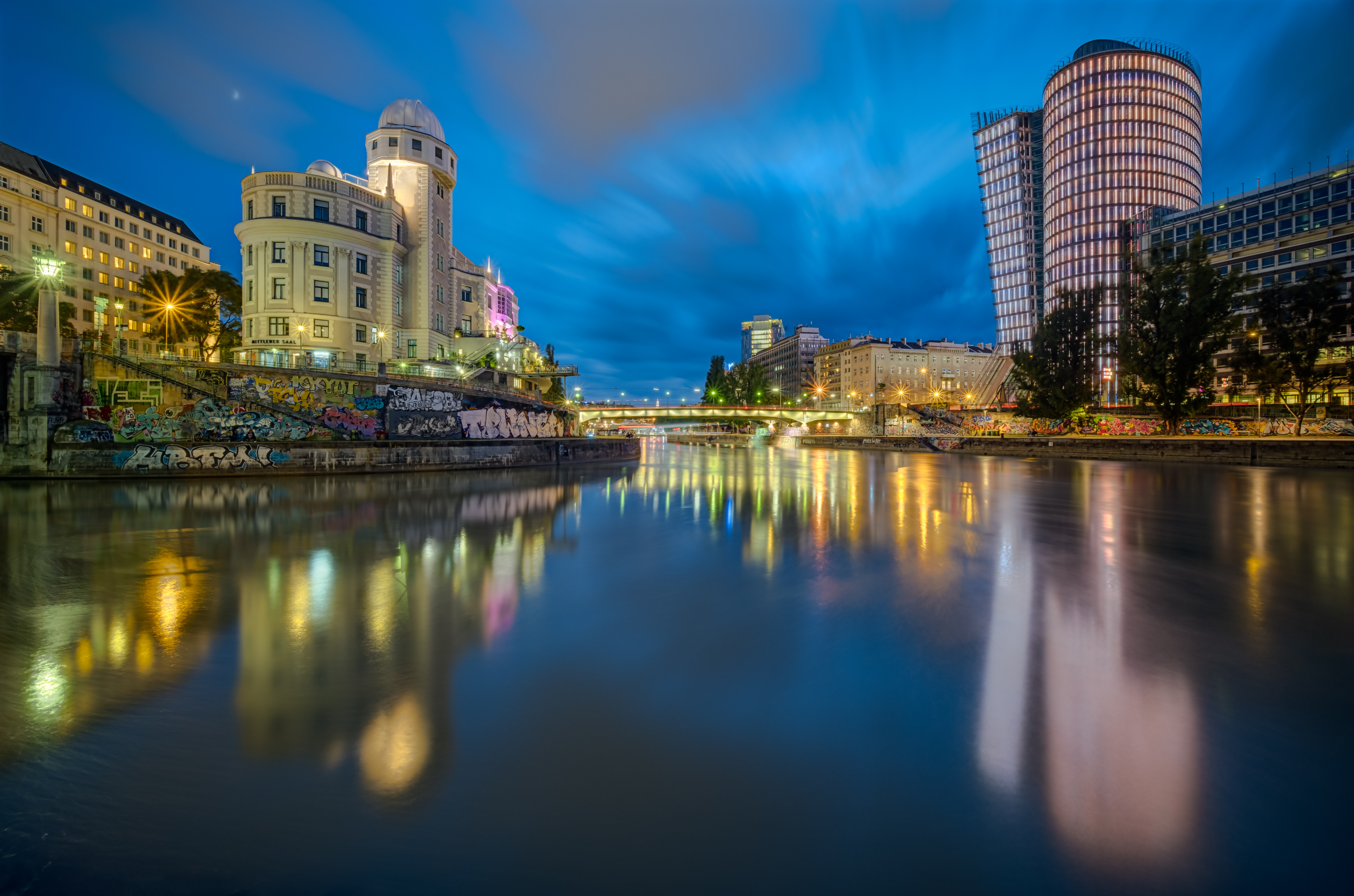 Observatory Urania and Danube Canal (Donaukanal) in evening, Vienna, Austria.